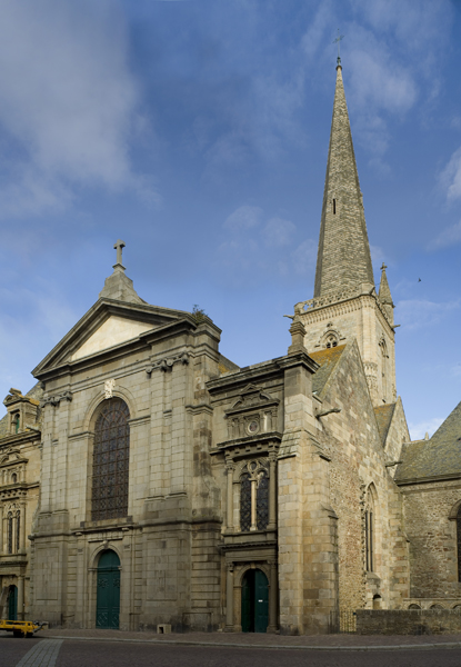 Cathédrale Saint-Vincent; Saint-Malo (Sant-Maloù); Bretagne, Ille-et-Vilaine, France; ref: PM_038403_F_Saint_Malo; ; La façade; Photographer: Paul M.R. Maeyaert; © Paul M.R. Maeyaert; ; Cultural heritage; Europe/France/Saint-Malo (Sant-Maloù)